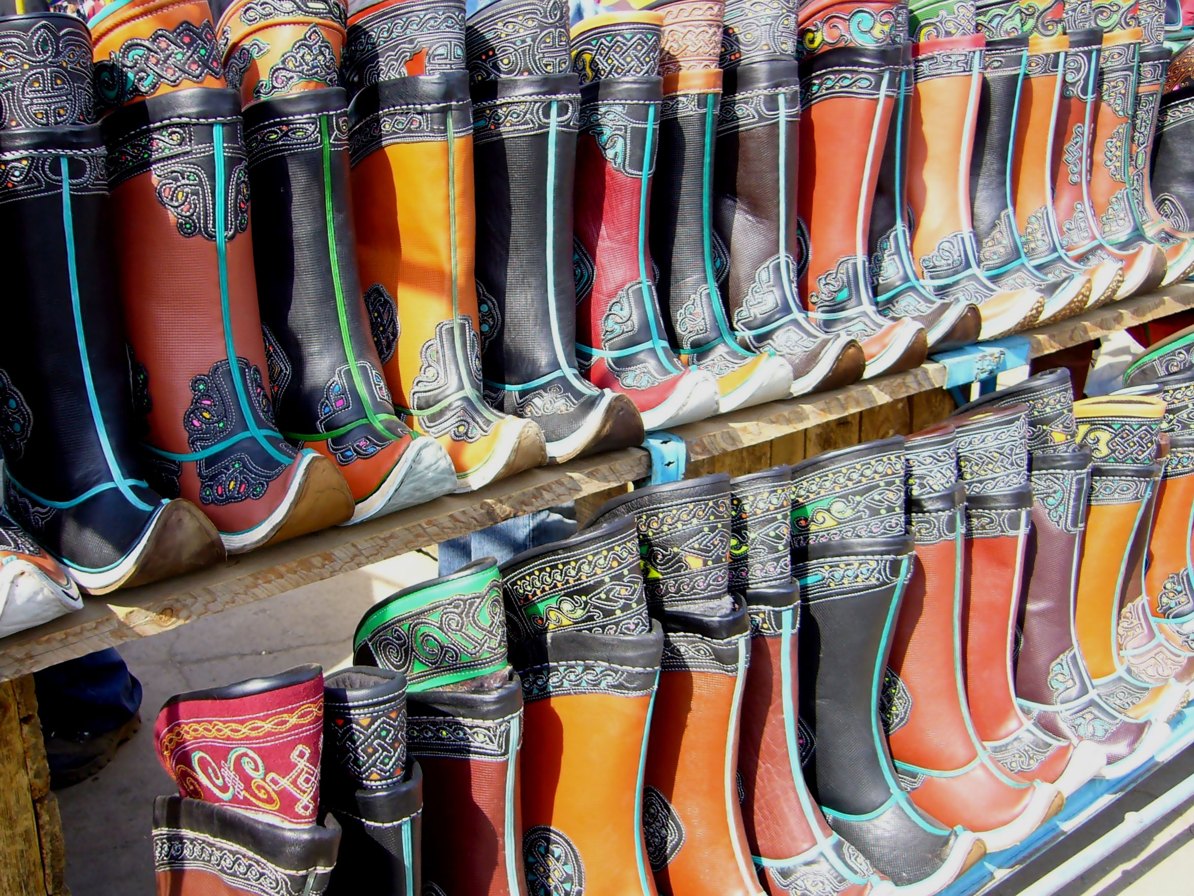 Khar Zakh (Black Market), Ulan Bator, Mongolia